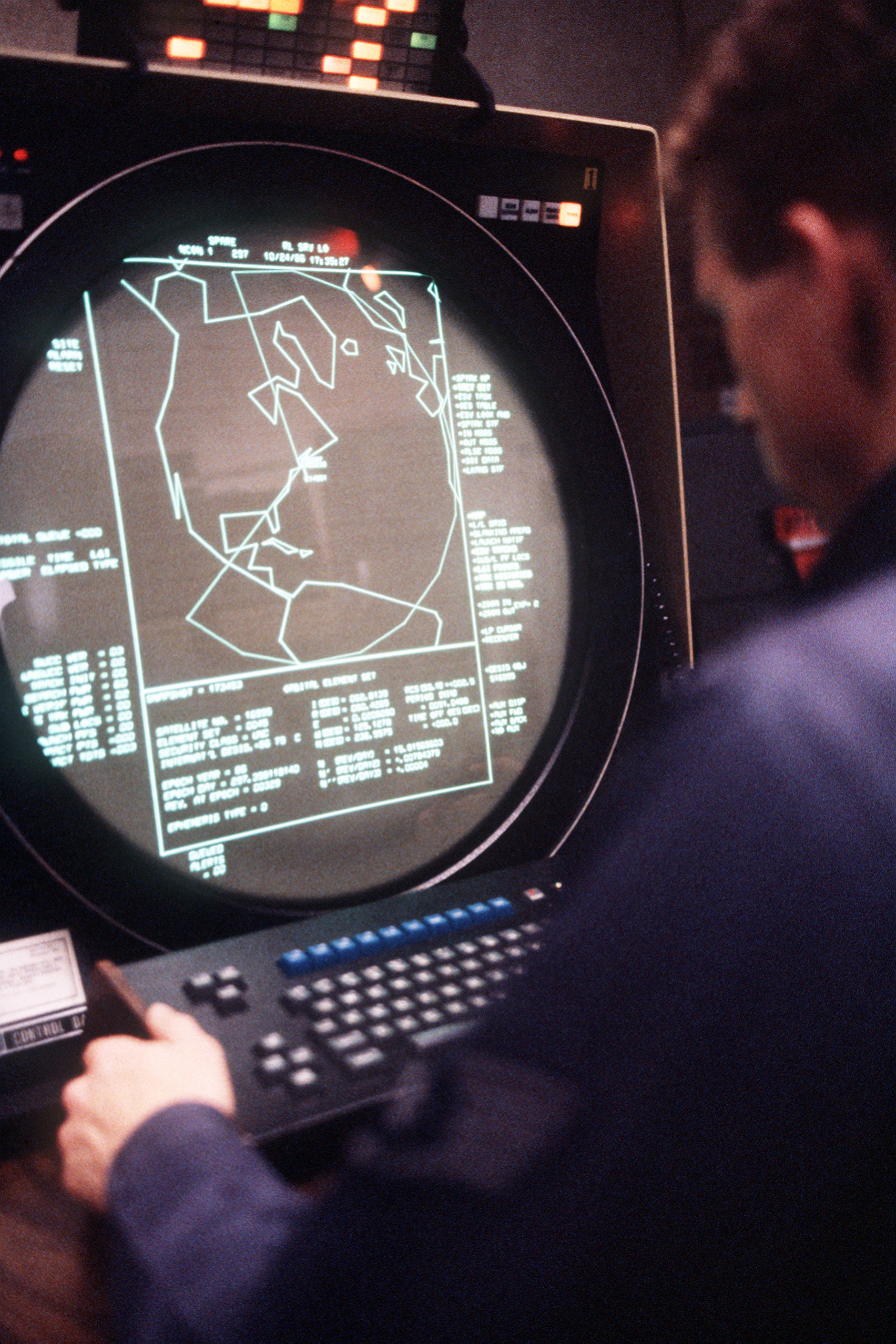 Staff Sgt. Paul Brawner of the 6th MISSILE Warning Squadron studies a RADAR screen for the AN-FPS-115 Pave Paws phased array warning system RADAR. The system is designed to detect MISSILEs launched at North America from submarines operating in the Atlantic Ocean.Location: CAPE COD AIR FORCE STATION, MASSACHUSETTS (MA) UNITED STATES OF AMERICA (USA)